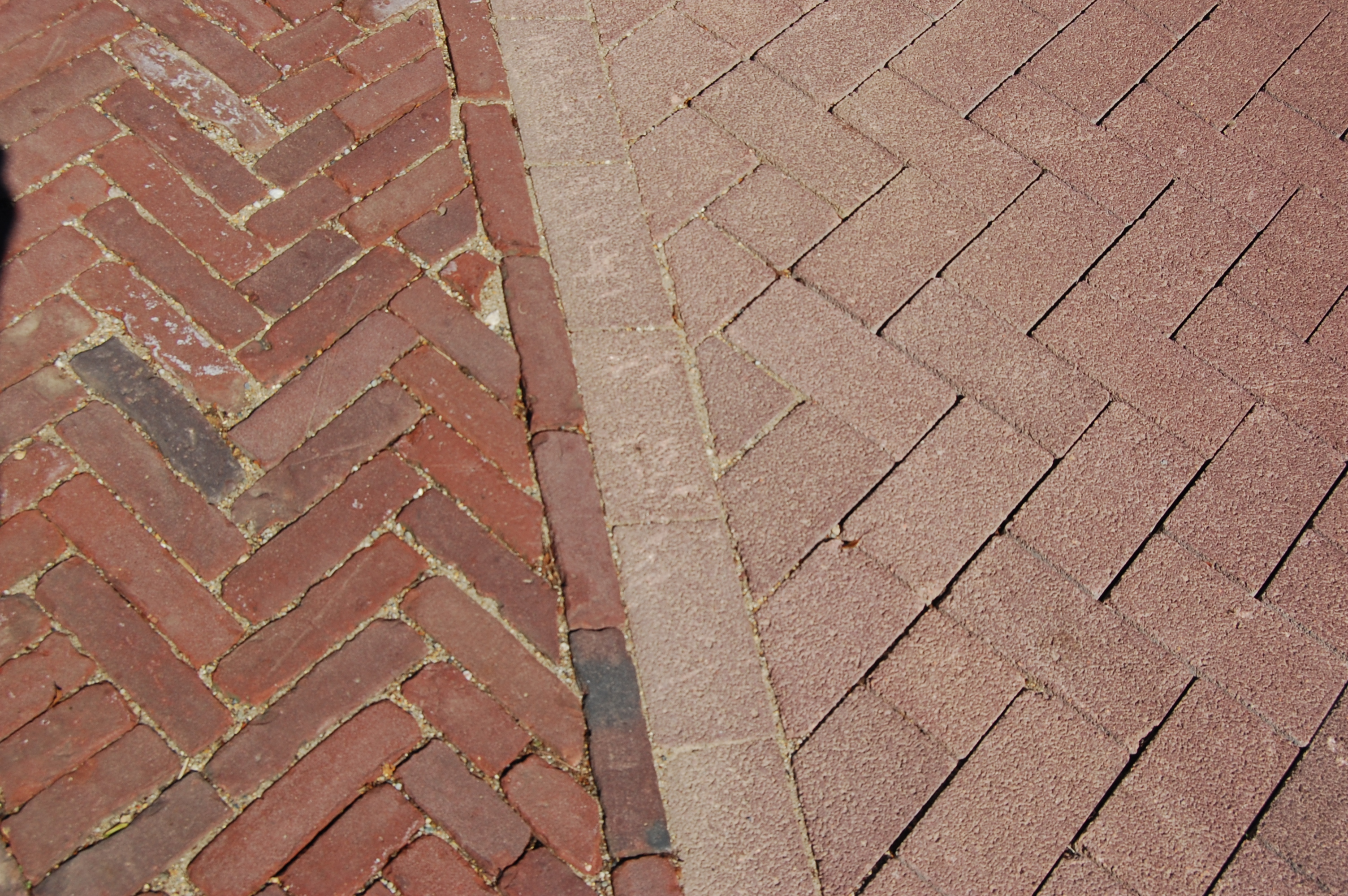 Right: silent / sound absorbing bricks Left: conventional bricks